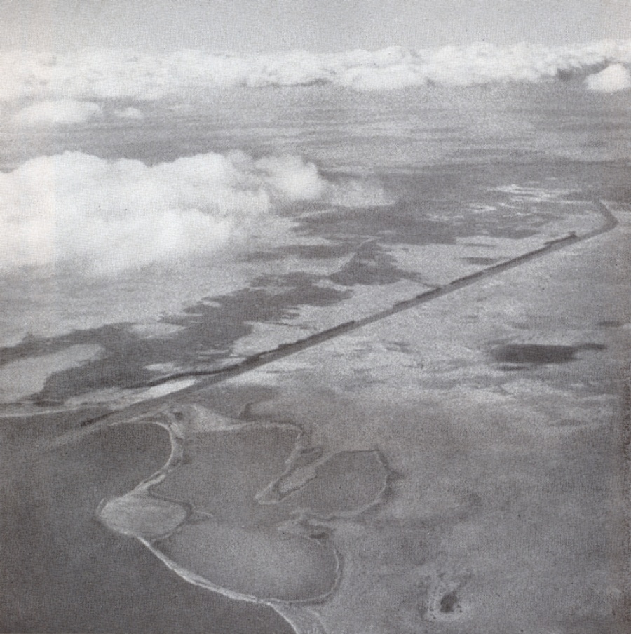 Suez Canal in February 1934. Air photograph taken by Swiss pilot and photographer Walter Mittelholzer (1894-1937).